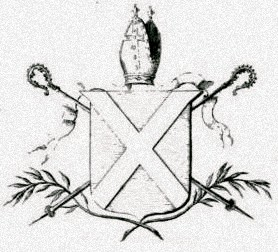 arms of scottish diocese (St Andrews)